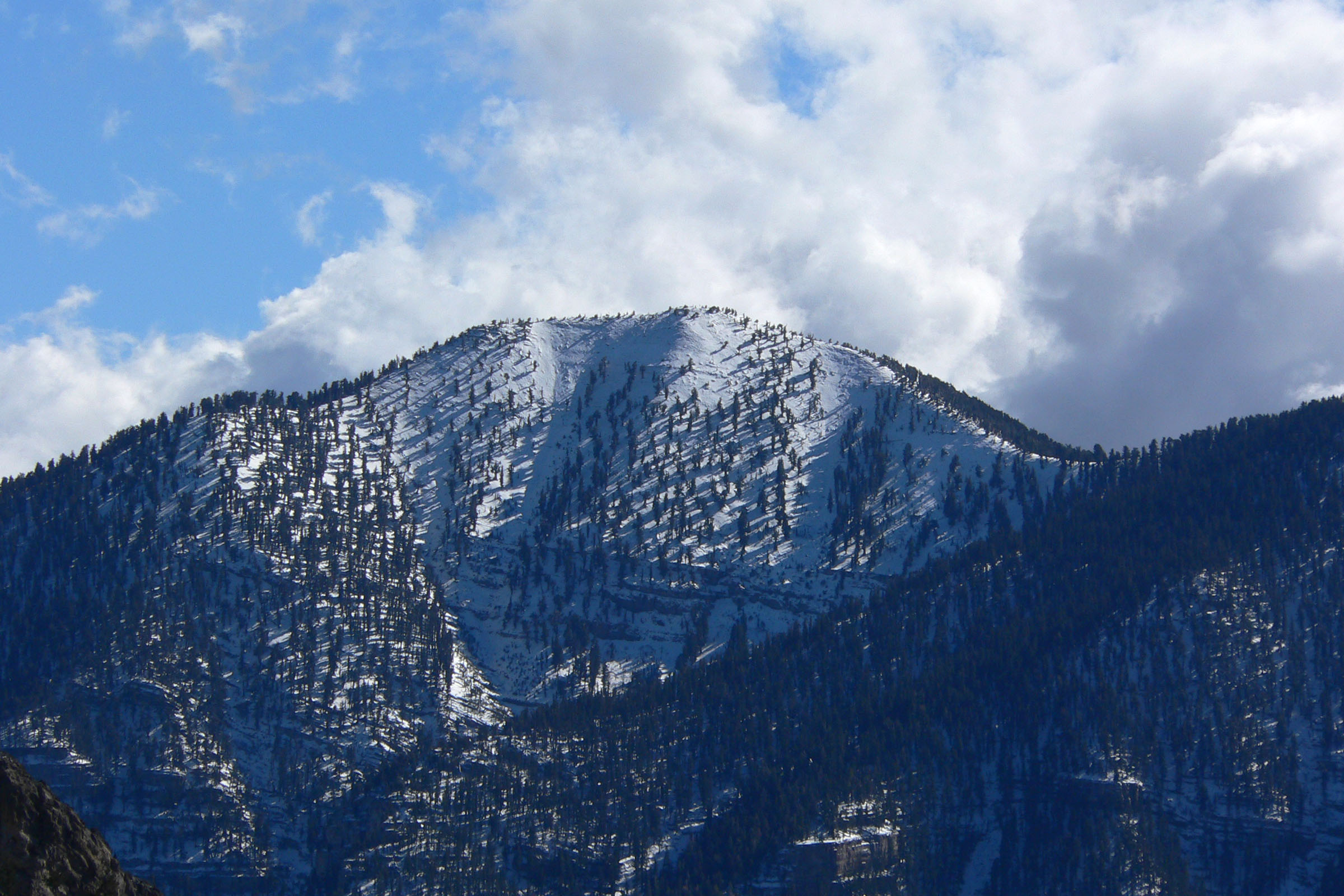 Griffith Peak seen from the top of Trail Canyon, Spring Mountains, southern Nevada